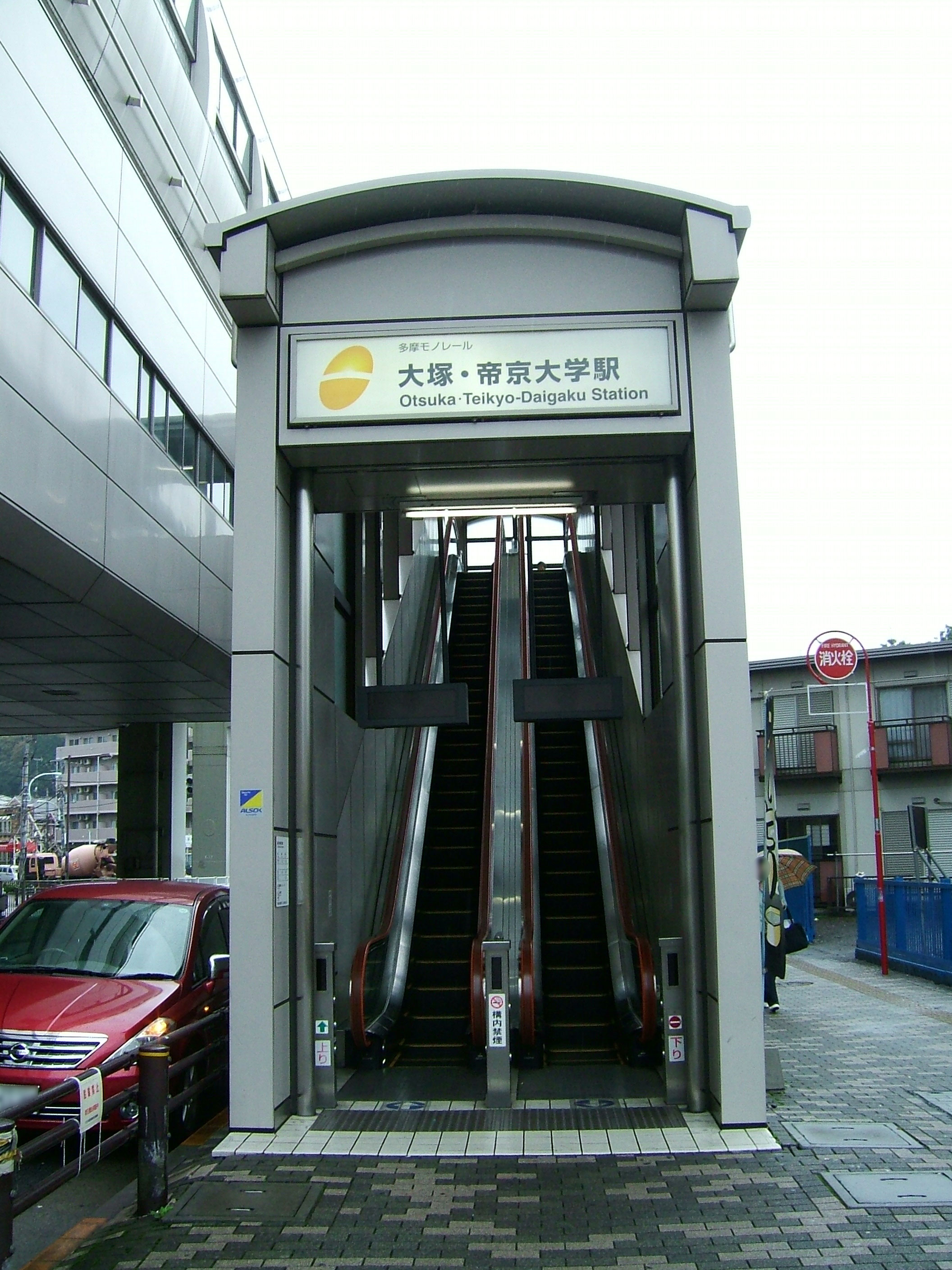 The no.2 entrance to Ōtsuka-Teikyō-Daigaku Station on the Tama Toshi Monorail in Hachiōji city, Tokyo, Japan